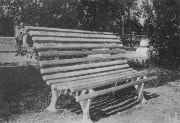 The bench at the public city park, summer of 1942 during occupation by Nazi Germany. The inscription reads: "Nur fuer Deutsche" (Only for Germans).